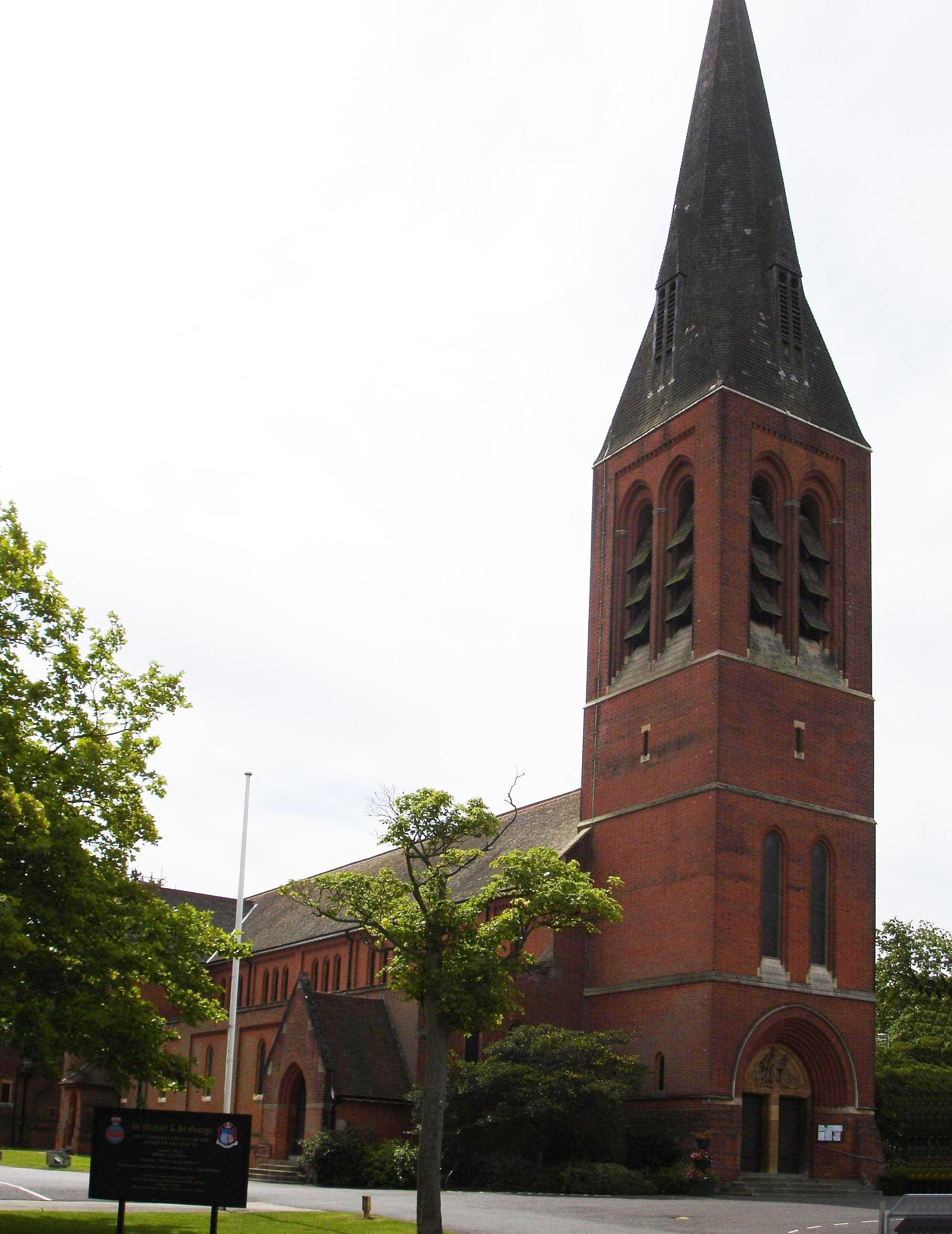 Roman Catholic cathedral of SS Michael and George, seat of the Bishop of the Armed Forces, Aldershot, Hampshire, England, seen from the north